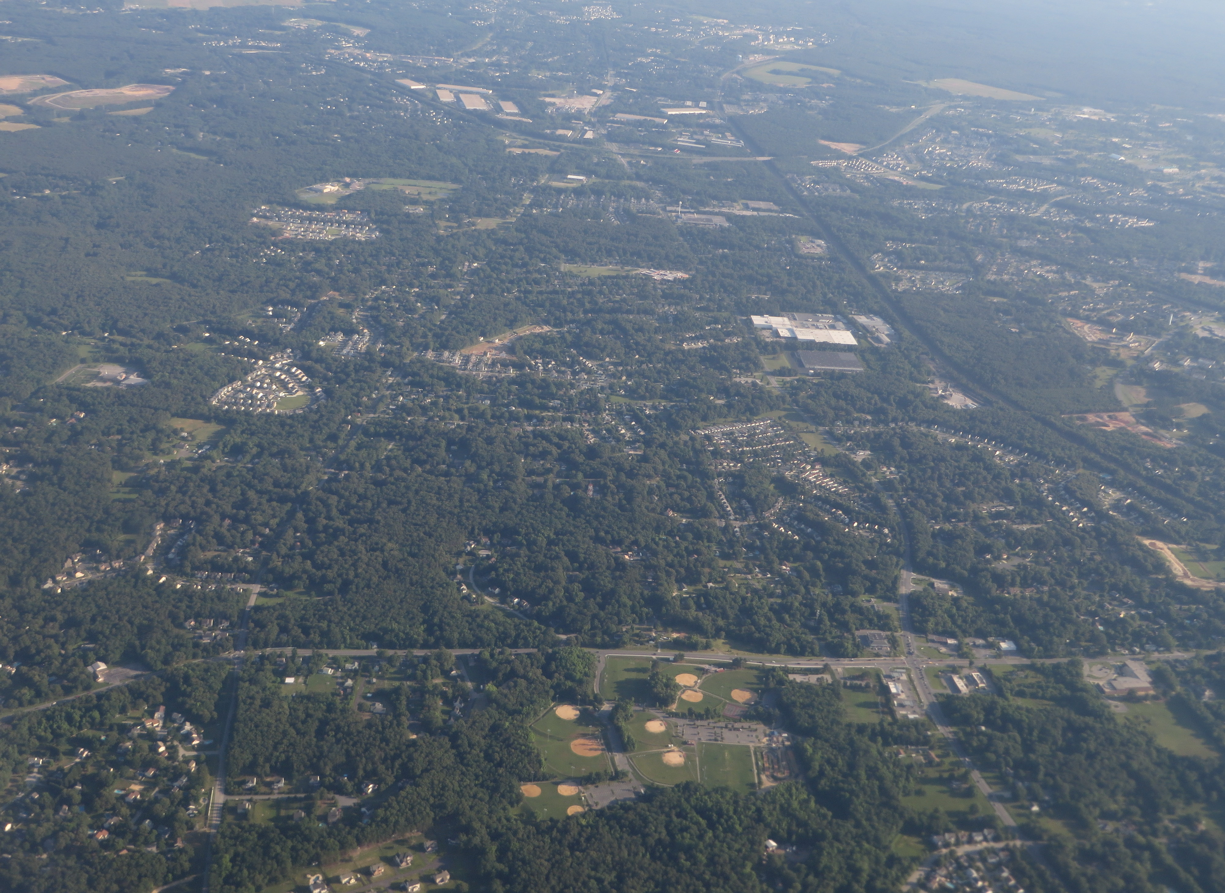 Severn is a census-designated place (CDP) in Anne Arundel County, Maryland, United States. The population was 44,231 at the 2010 census, a 26% increase from its population of 35,076 at the 2000 census. It is bordered by Baltimore–Washington International Airport to the north, Glen Burnie to the east, Gambrills, Odenton, and Fort George G. Meade to the south, and partially by Jessup to the west. The Baltimore–Washington Parkway (Maryland Route 295) forms the northwestern edge of the CDP, Maryland Route 176 (Dorsey Road) forms the northern edge, and Interstate 97 forms the eastern edge. Part of the southern boundary of the CDP is formed by the non-tidal portion of the Severn River. The Maryland Route 100 freeway runs through the northern part of the CDP, connecting the Parkway and I-97. Arundel Mills, a major regional mall, is located in the northern corner of the CDP, near the intersection of Route 100 and the Baltimore–Washington Parkway.